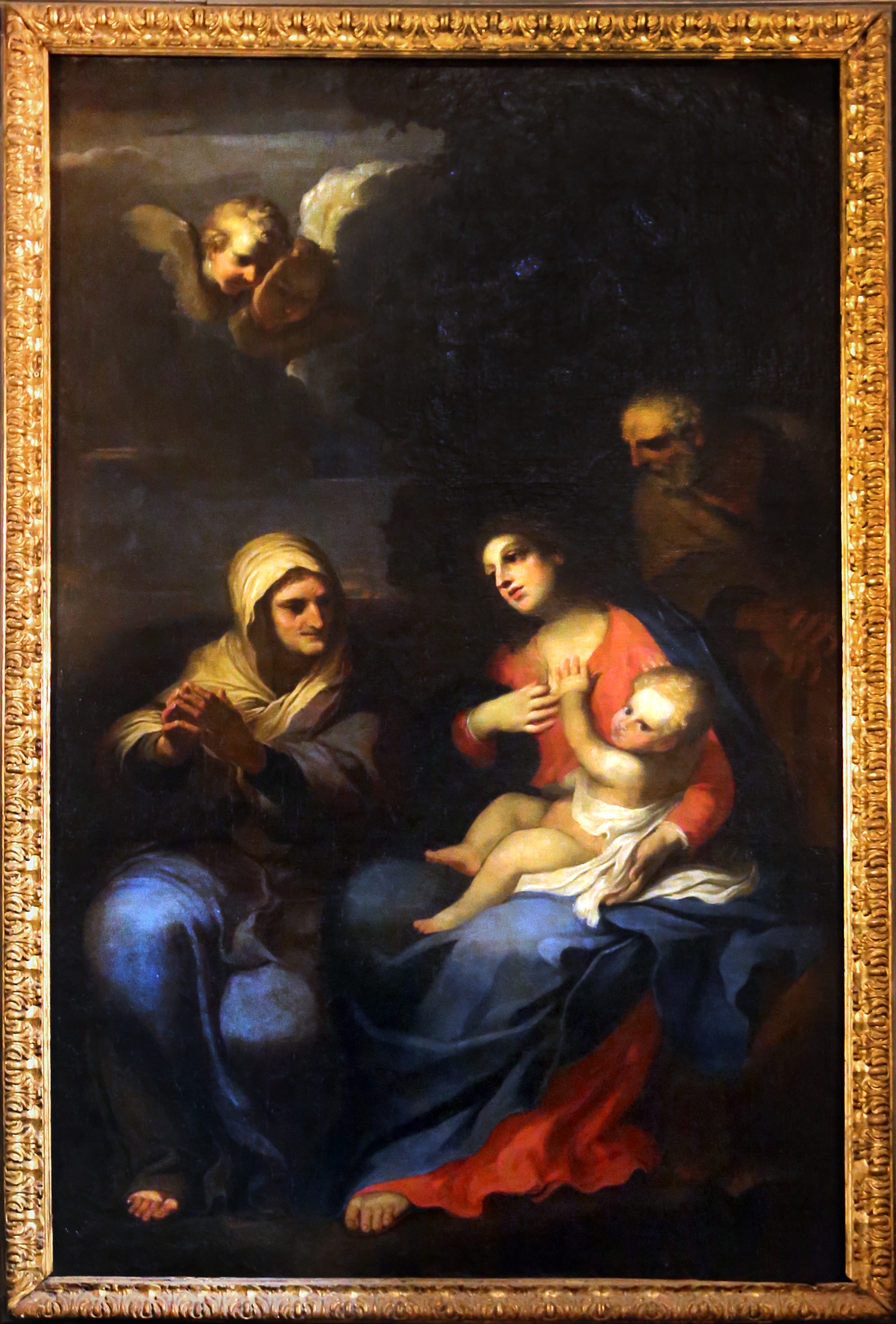 Santa Maria della Pace (Rome) - Cappella Cesi